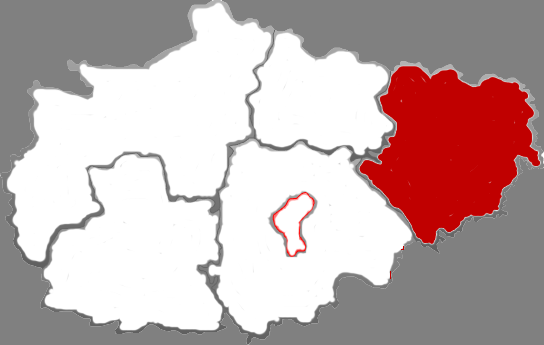 Location of Lingchuan county in Jincheng City, China